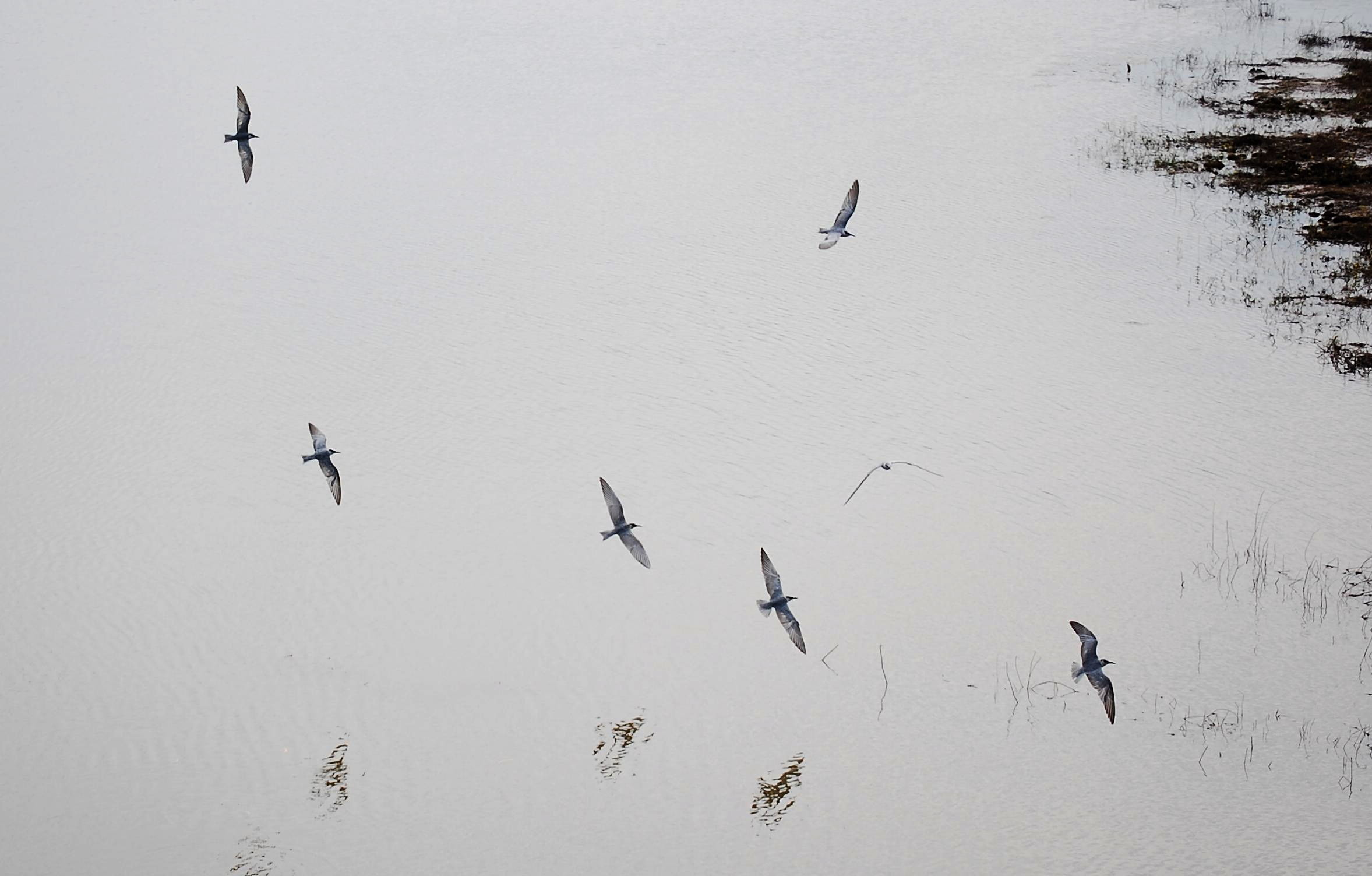 whiskered_terns